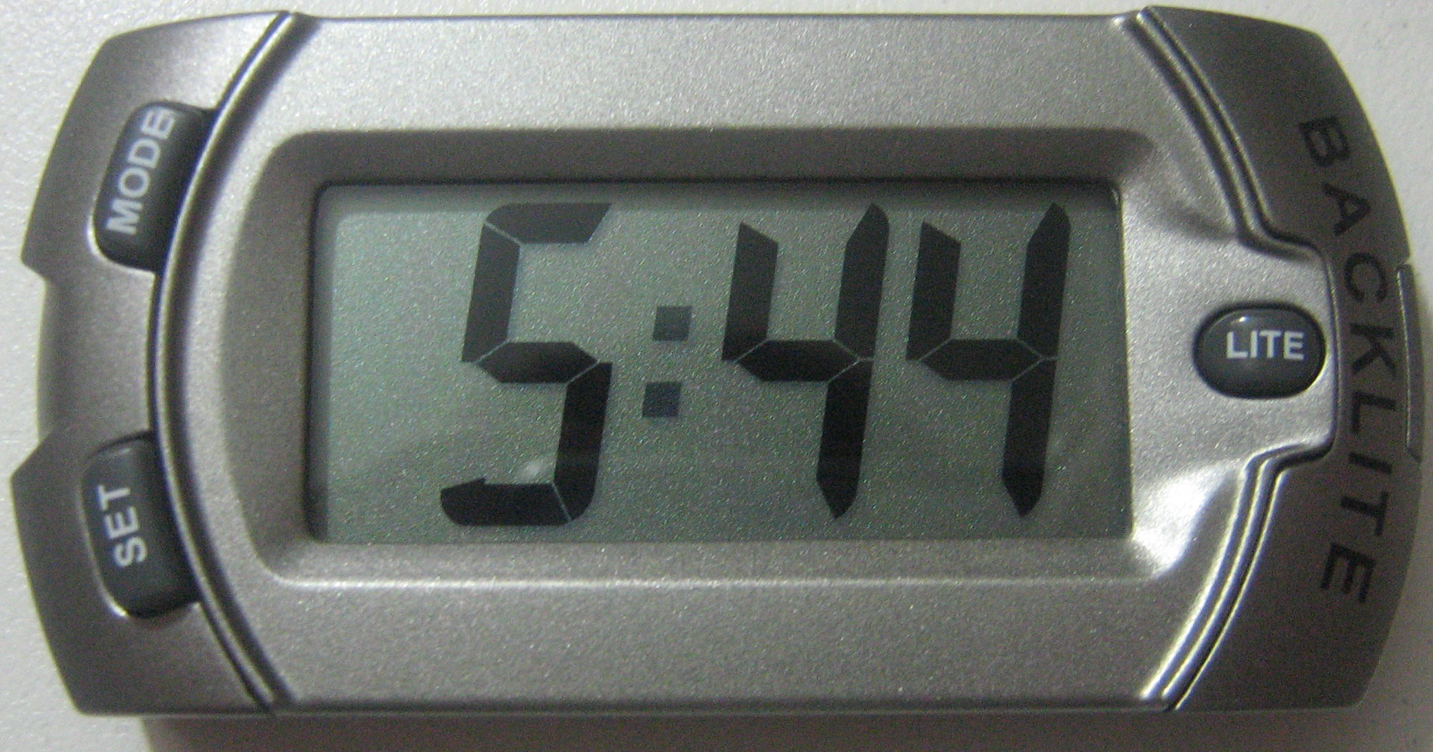 My LCD clock with LED backlight. My own image, shot with Canon PowerShot A430 pls send your company dealings and your fully digital clock calculatar clok etc....... send my mail and address thi is my address, beepee enter prises, b23,first floor, gcda shopping complx ,marine drive eranakulam kerala mob 9447500505,9249540040,04843047556,04846453279